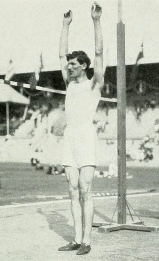 Konstantinos Tsiklitiras during the standing high jump competition at the 1912 Summer Olympics.